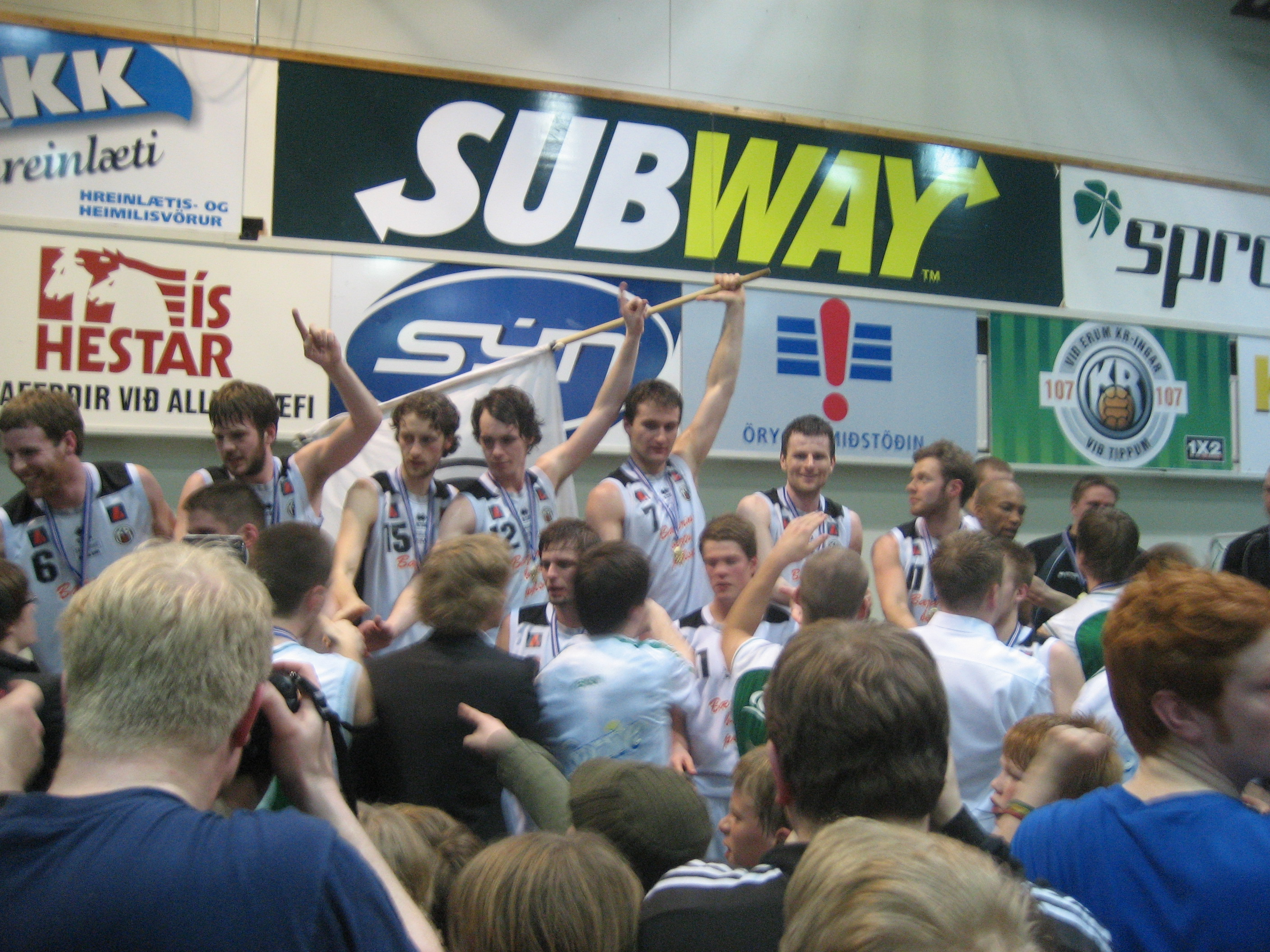 KR won the Icelandic basketball league in 2007